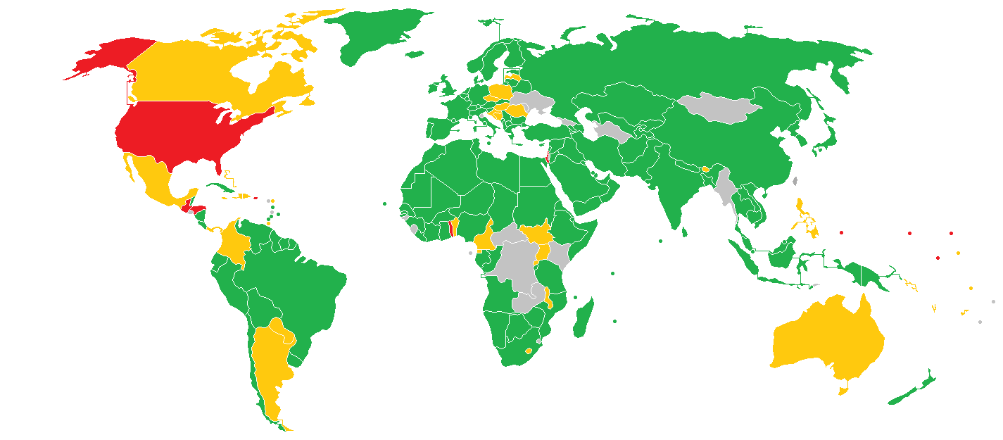 United Nations General Assembly resolution A/ES-10/L.22 vote Voted in favor Voted against Abstained Not present